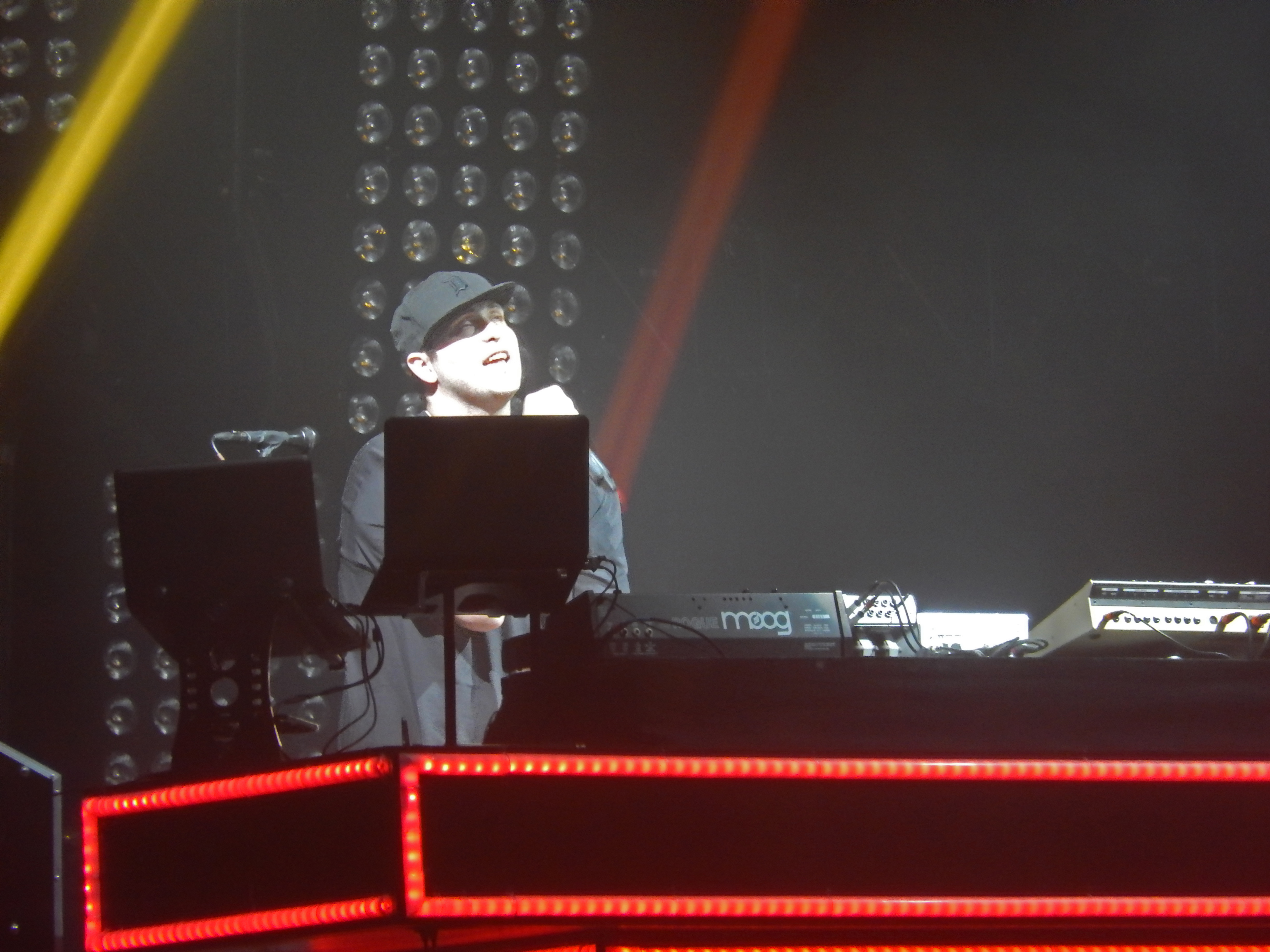 Pretty Lights @ the Aragon, Chicago 11/8/2013